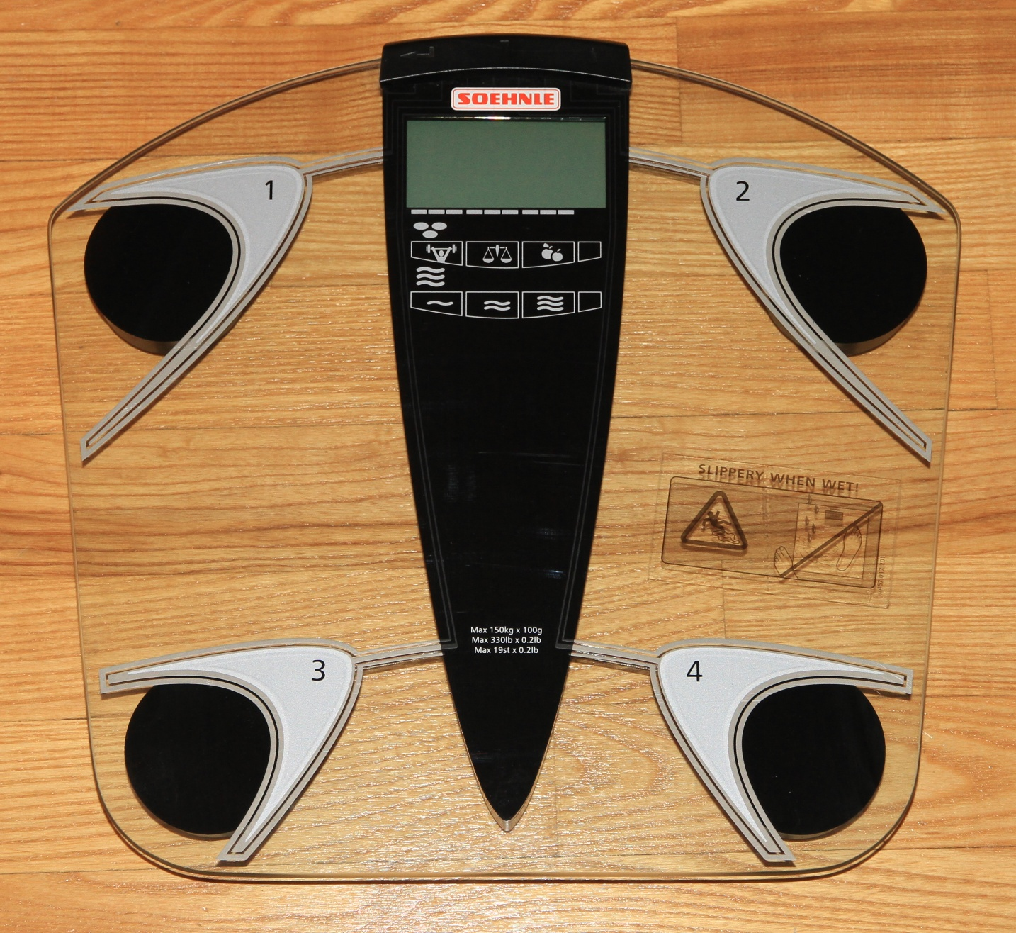 Soehnle body scale with integrated body fat and water monitor.